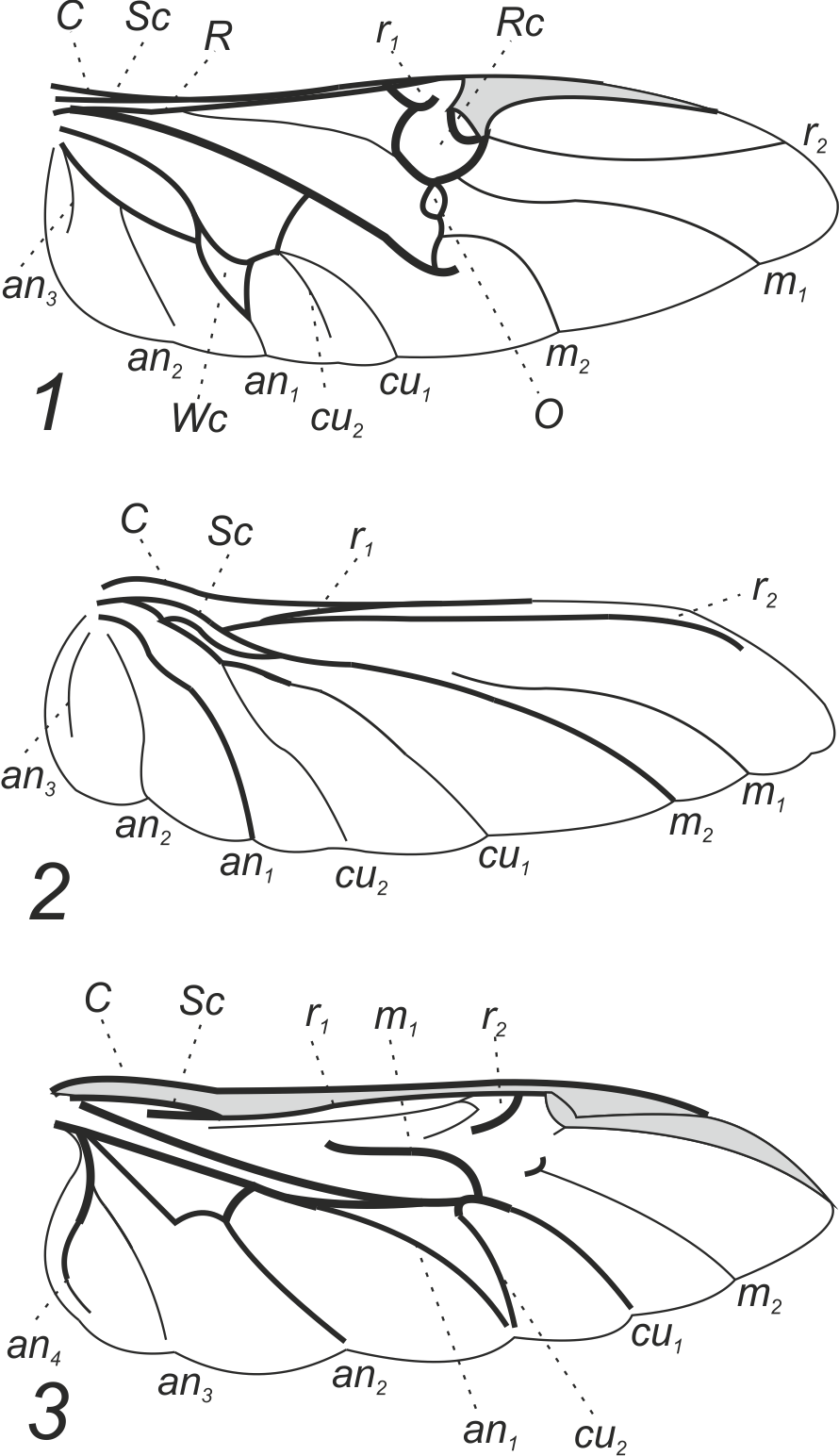 Main types of hind wings of beetles. LEGEND: 1:Adephaga. 2:Staphylinoidea 3: Cantharoidea. O:Oblongum. Wc: wedge cell. Rc: radial cell. R: radius. M:media. C: costa. Sc:subcosta. Cu: cubitus. An:analis.